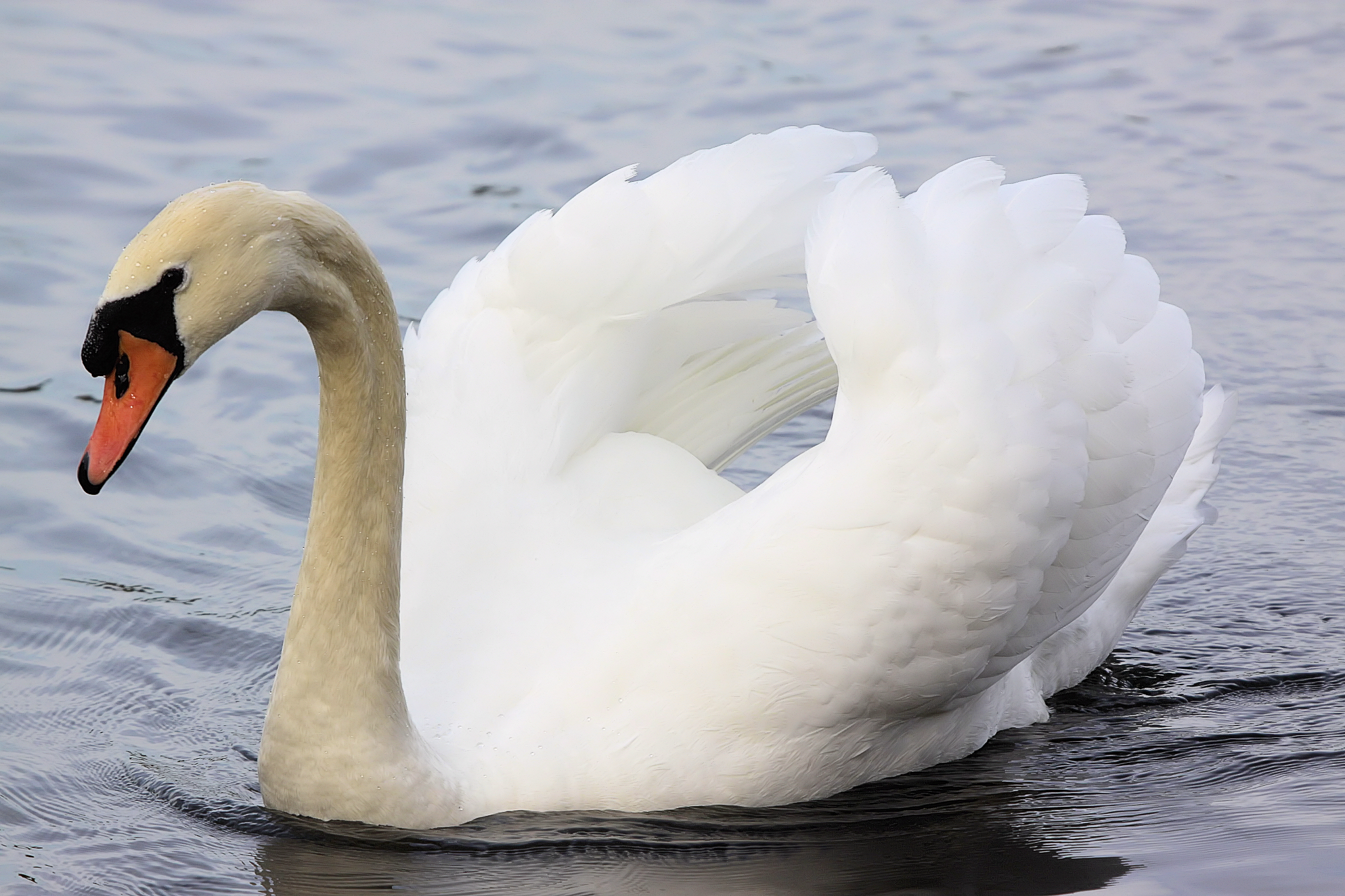 Swan - Harrold Country Park October 2009